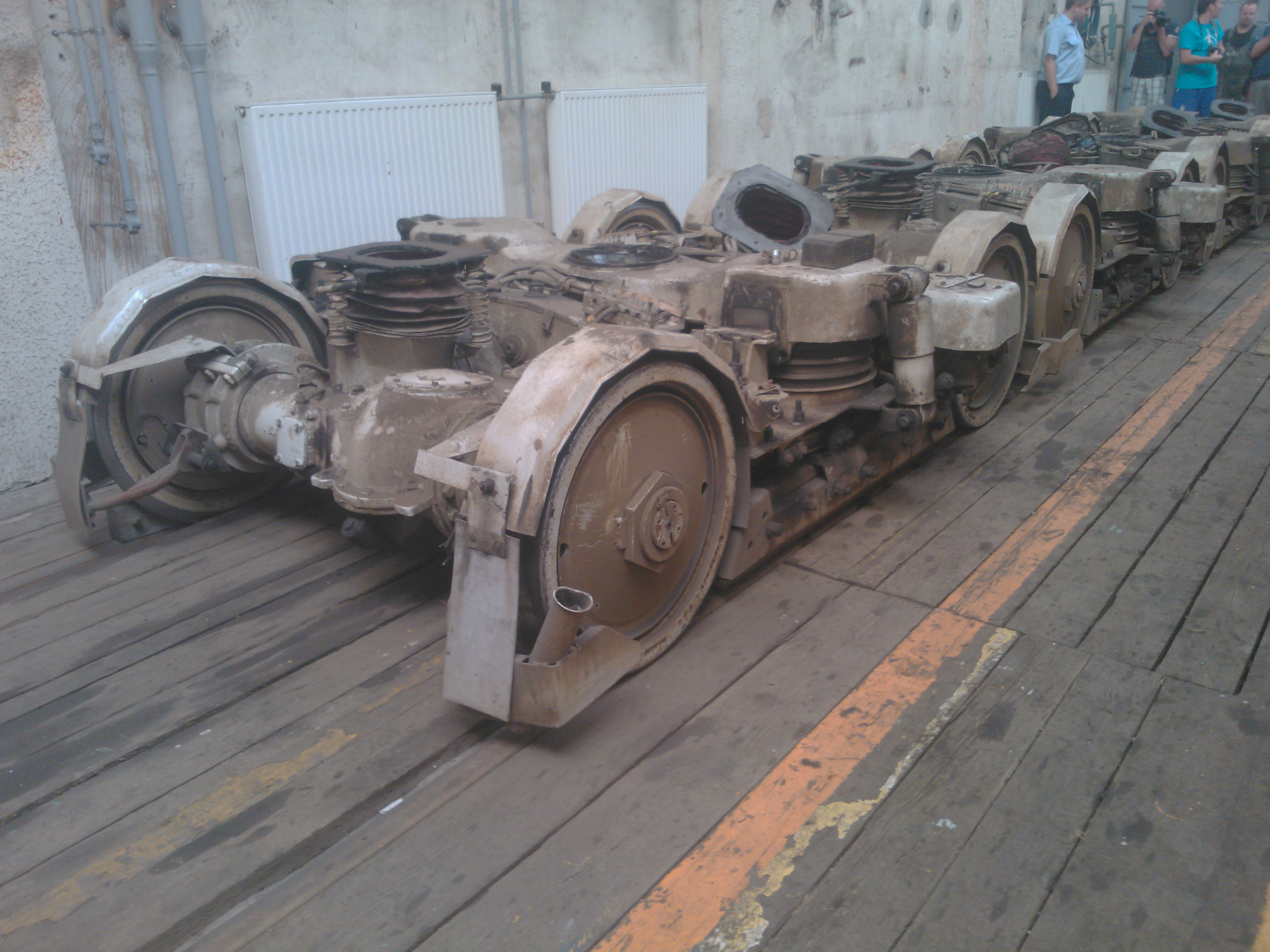 Bogies belonging to Tatra T5C5 tramcars at Szépilona Tramway Depot, Budapest.